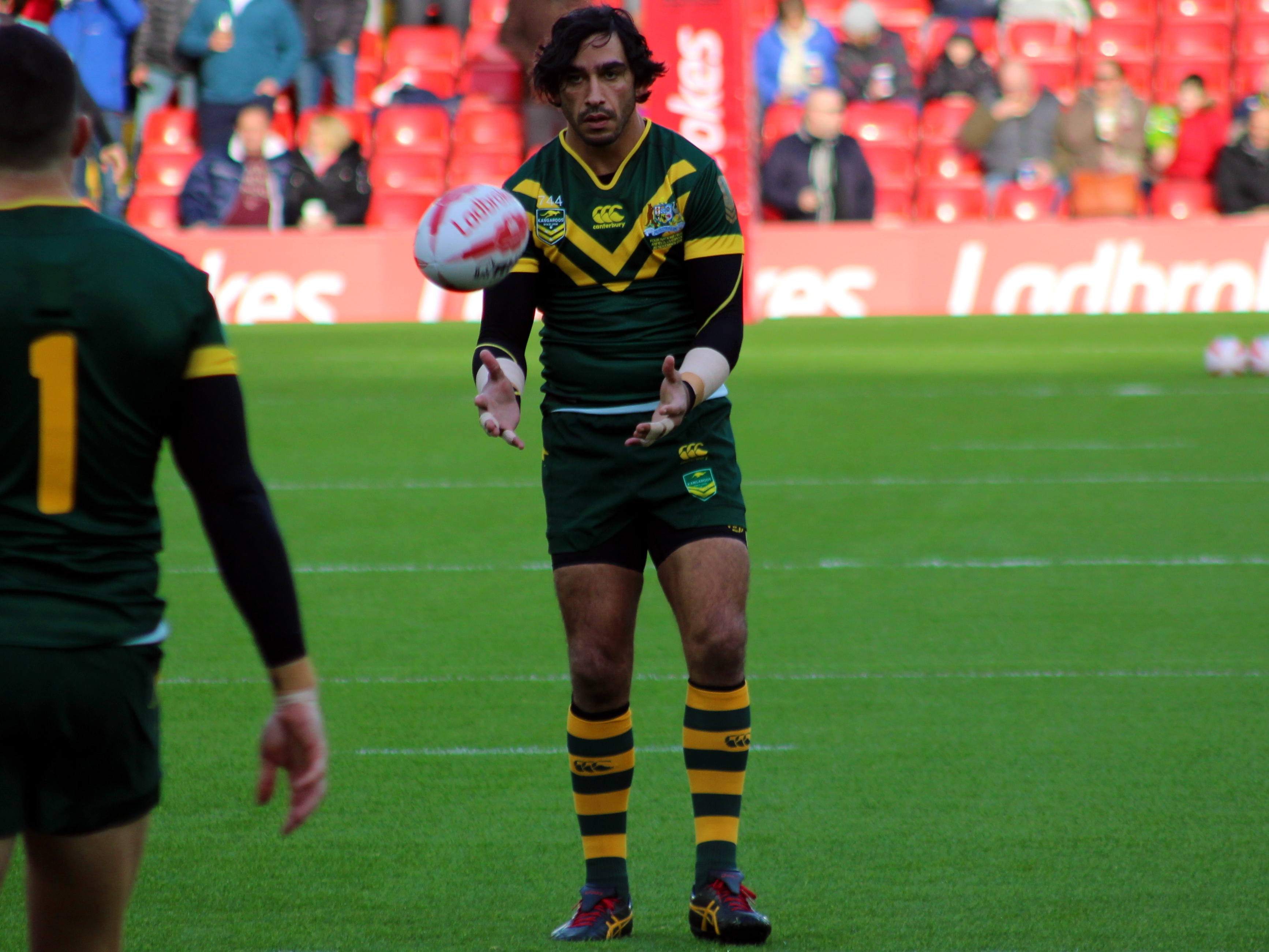 Johnathan Thurston